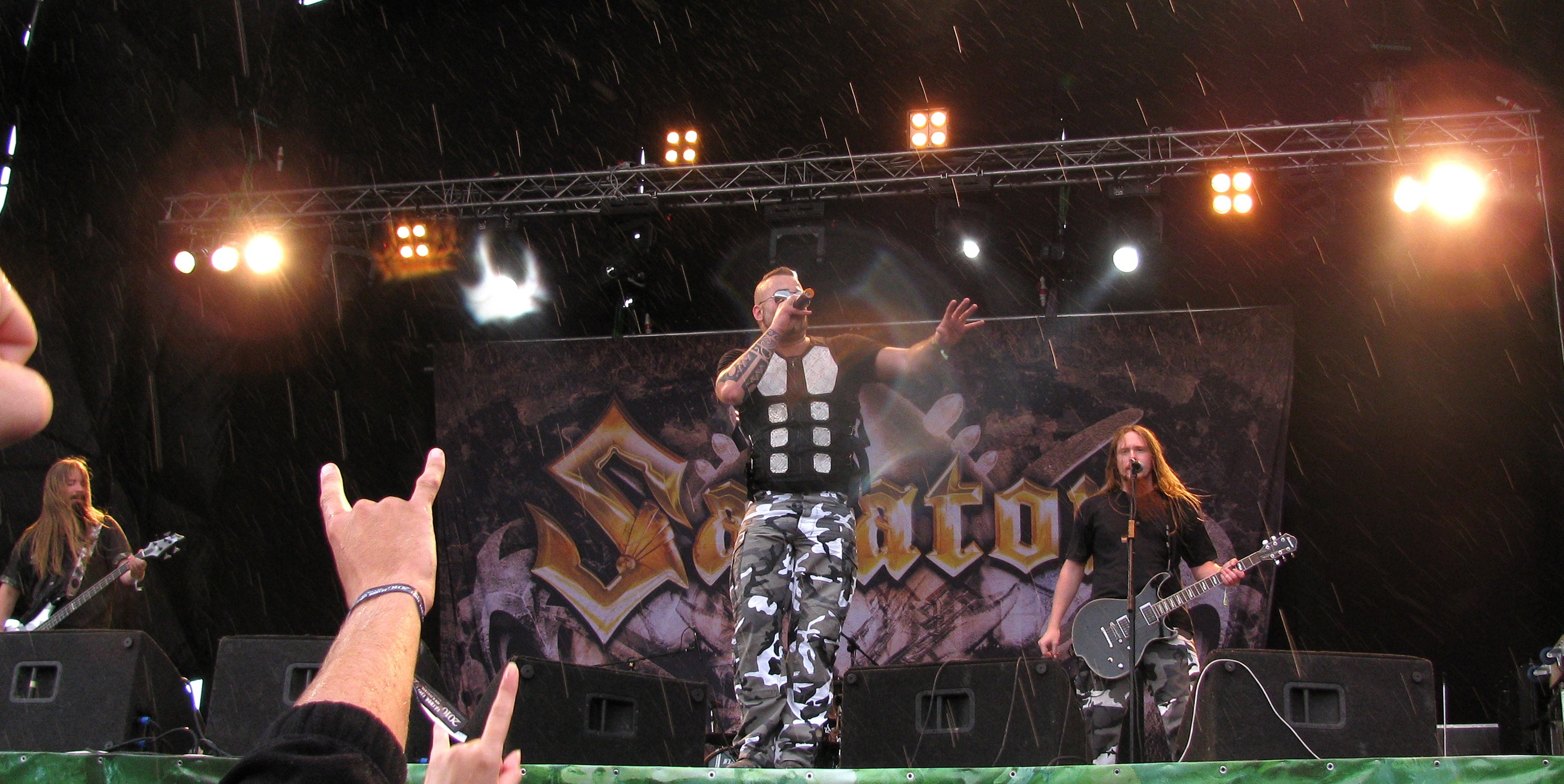 Sabaton playing at Global East Rock Festival 2010